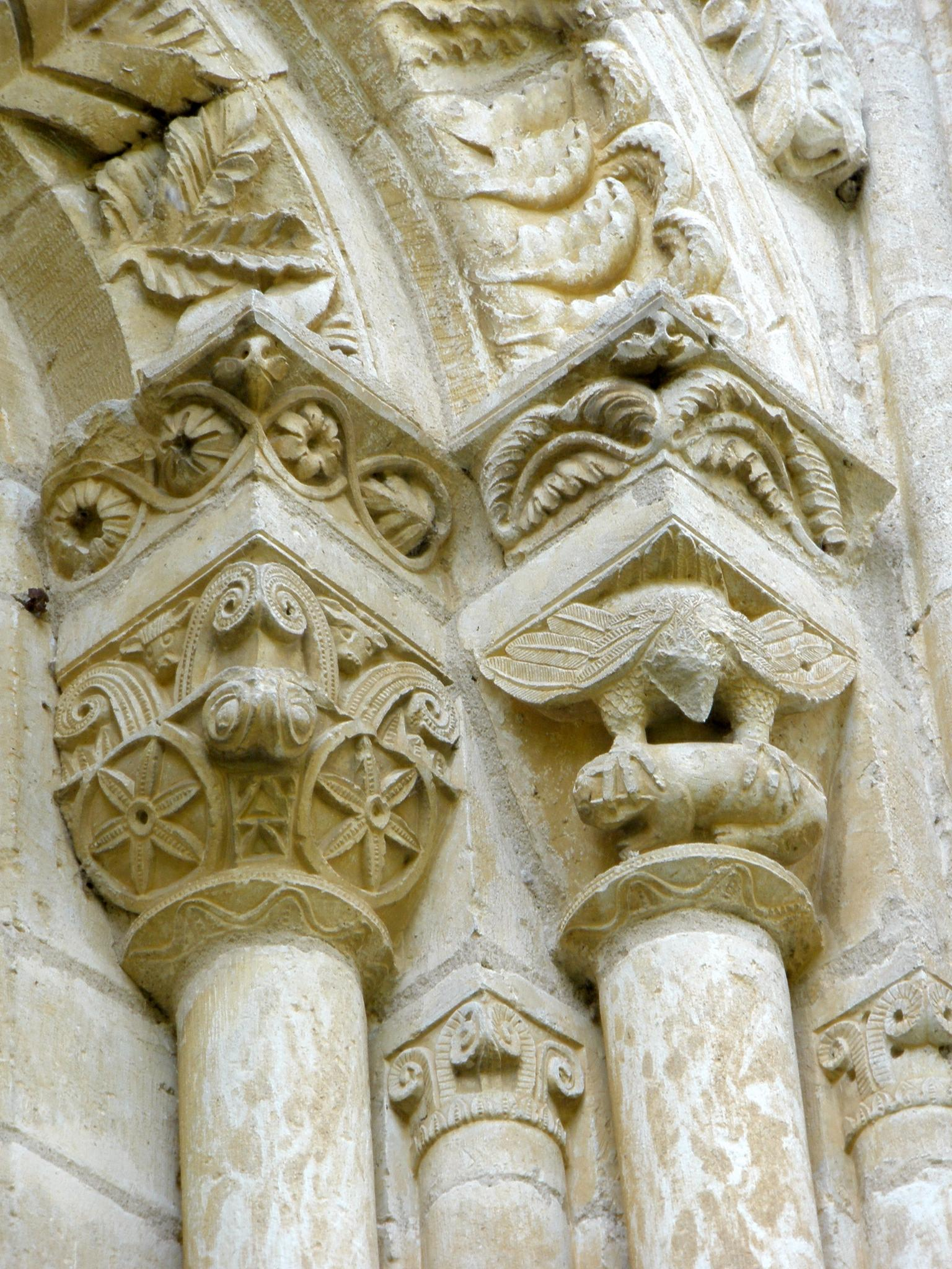 Capiteles románicos en un ventanal de la Iglesia de la Natividad de Nuestra Señora de Añua, municipio de Elburgo (Álava, País Vasco, España)